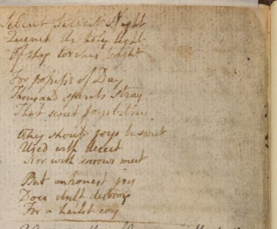 Blake manuscript - Notebook 14 - Silent Silent Night